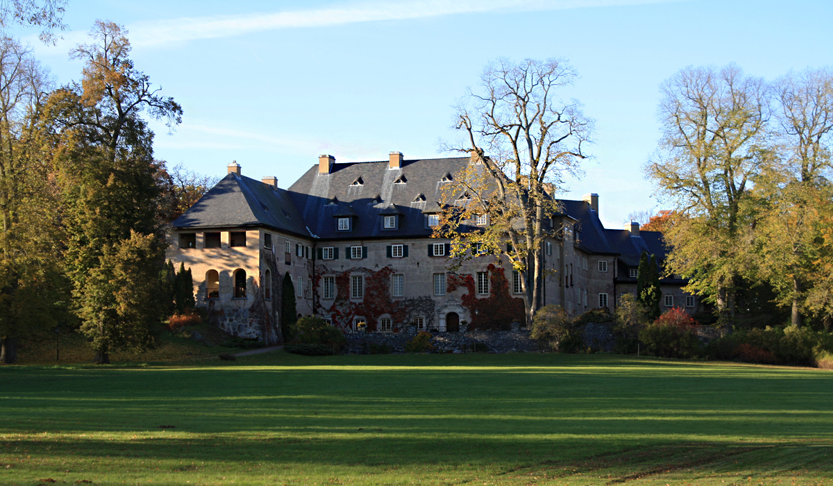 Adelsnäs mansion.